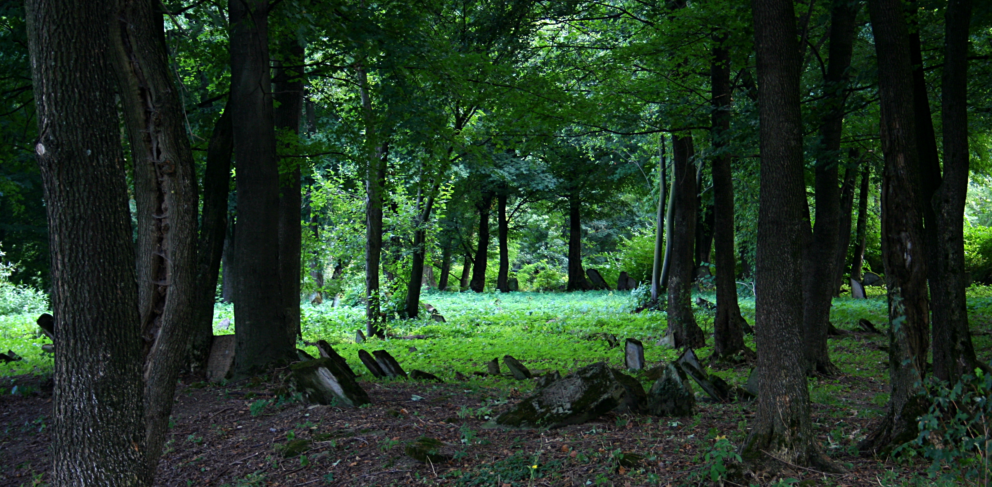 Old Jewish Cemetery in Dukla.